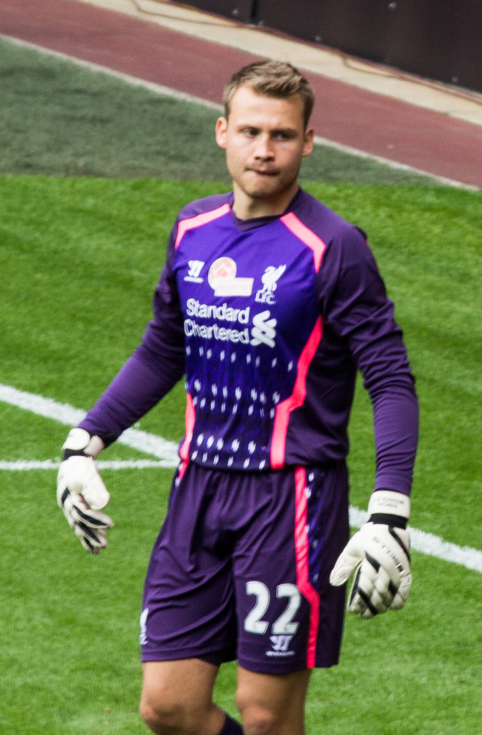 Simon Mignolet during Steven Gerrard's testimonial on 3 August 2013.